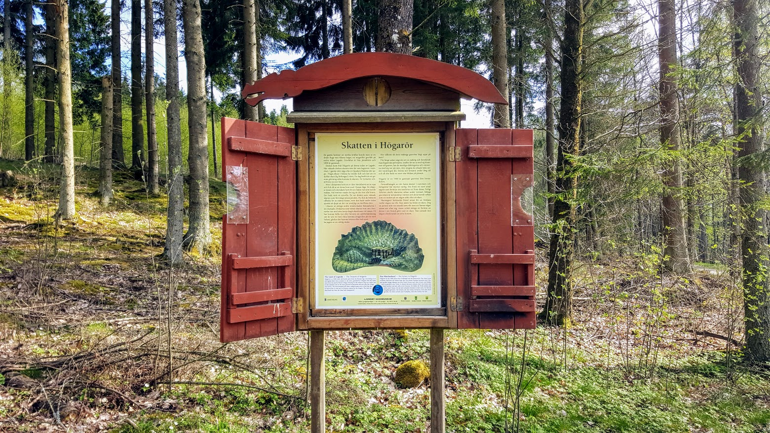 An information board about local folklore near Högarör cairn outside Ljungby, Sweden.